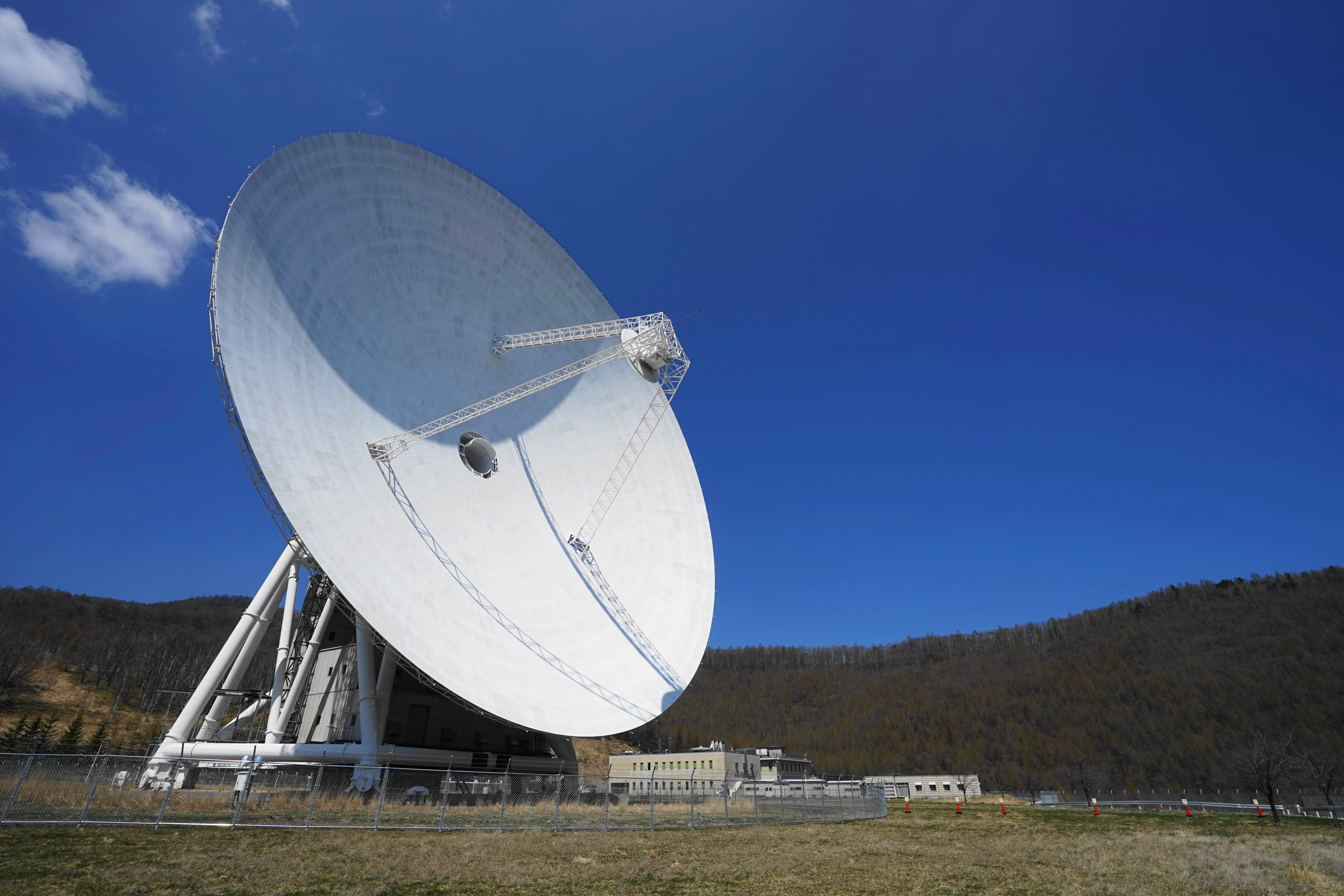 The 64 m antenna at Usuda Deep Space Center